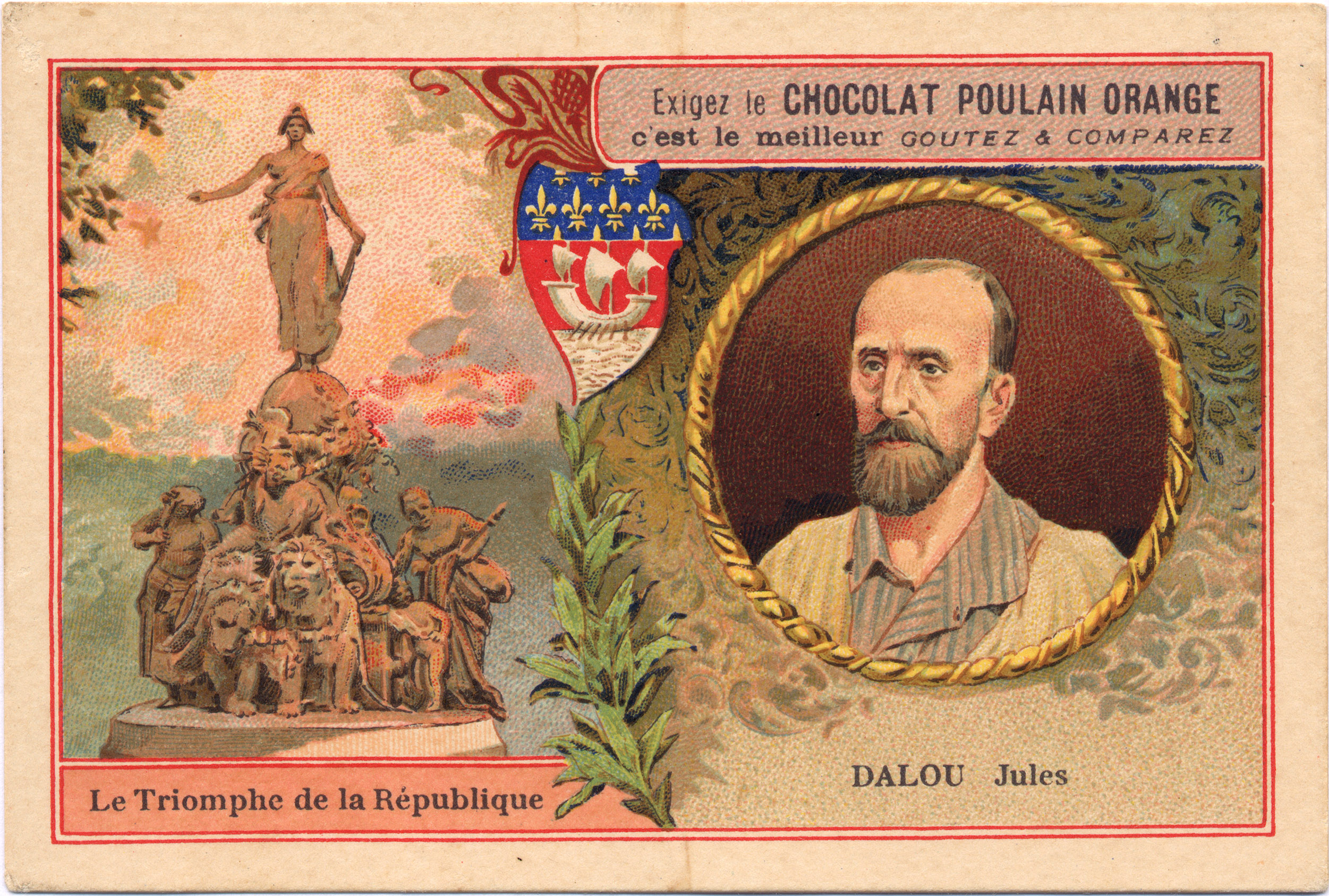 Portrait of Jules Dalou. From the "Famous sculptors" prints serial edited by Poulain Chocolate circa 1900.